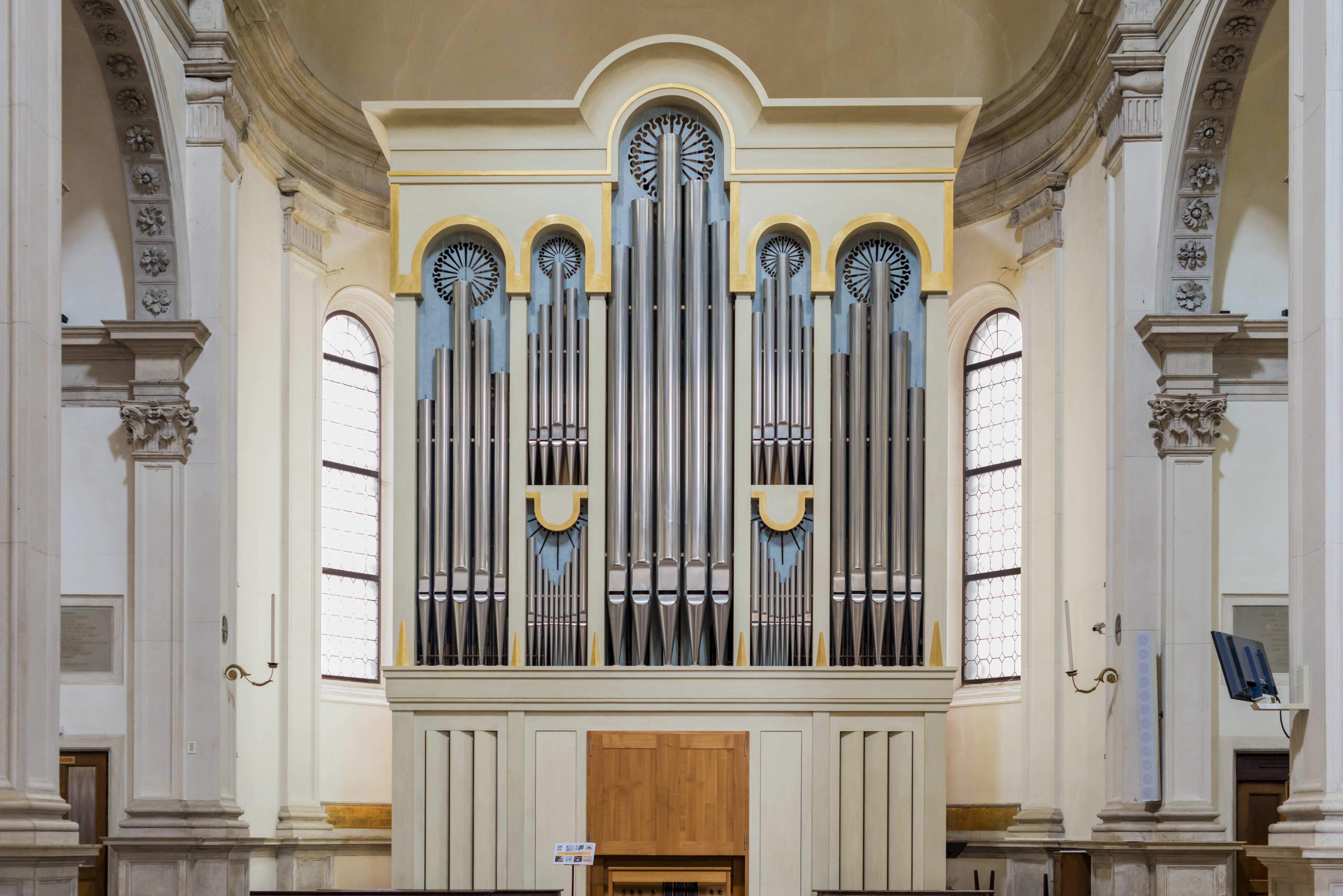 Treviso Cathedral - the organ.